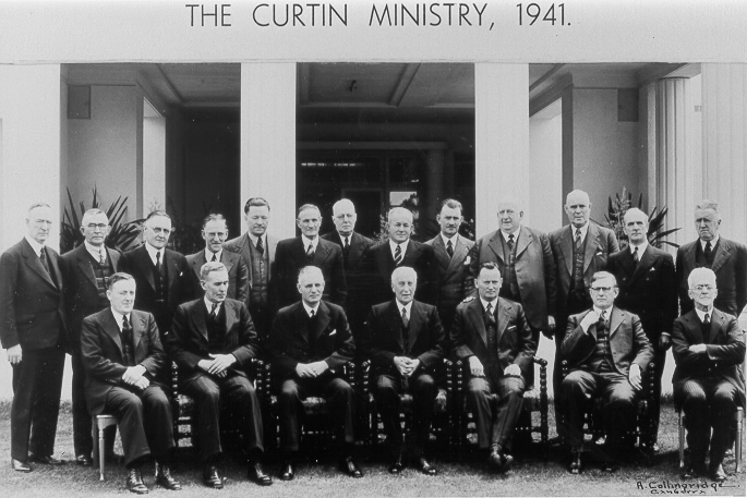 Prime Minister John Curtin's Ministry in 1941 in front of Government House Canberra. Left to right, seated: Jack Beasley, Minister for Supply and Development Ben Chifley, Treasurer John Curtin, Prime Minister and Minister for Defence Co-ordination Lord Gowrie, Governor-General Frank Forde, Minister for the Army H. V. Evatt, Attorney-General and Minister for External Affairs Joe Collings, Minister for the Interior Standing: Bill Ashley, Postmaster-General and Minister for Information Hubert Lazzarini, Minister for Home Security Norman Makin, Minister for the Navy and Minister for Munitions Arthur Drakeford, Minister for the Air and Minister for Civil Aviation Eddie Ward, Minister for Labour and National Service George Lawson, Minister for Transport Jack Holloway, Minister for Health and Minister for Social Services William Scully, Minister for Commerce John Dedman, Minister for War Organisation of Industry and Minister in charge of the Council for Scientific and Industrial Research Richard Keane, Minister for Trade and Customs and Vice-President of the Executive Council Charles Frost, Minister for Repatriation and Minister in charge of War Service Homes James Fraser, Minister for External Territories Don Cameron, Minister for Aircraft Production